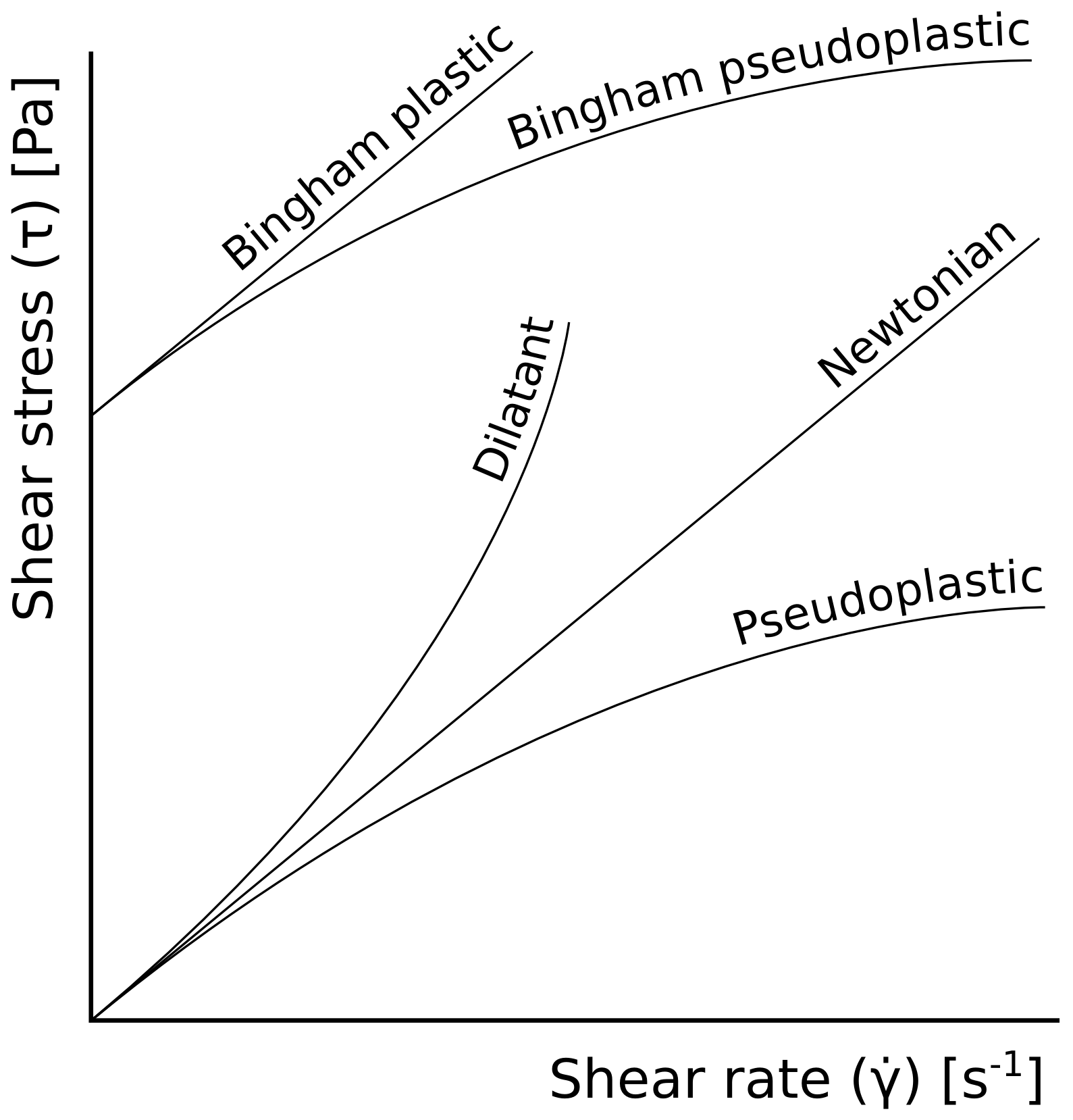 Time independent rheology of fluids presented as shear rate as a function of shear stress